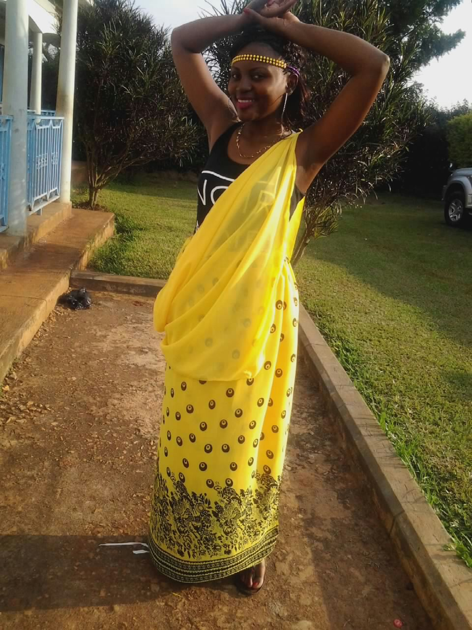 A beautiful Ankole lady wearing mshanana This is an image of Cultural Fashion or Adornment from Uganda